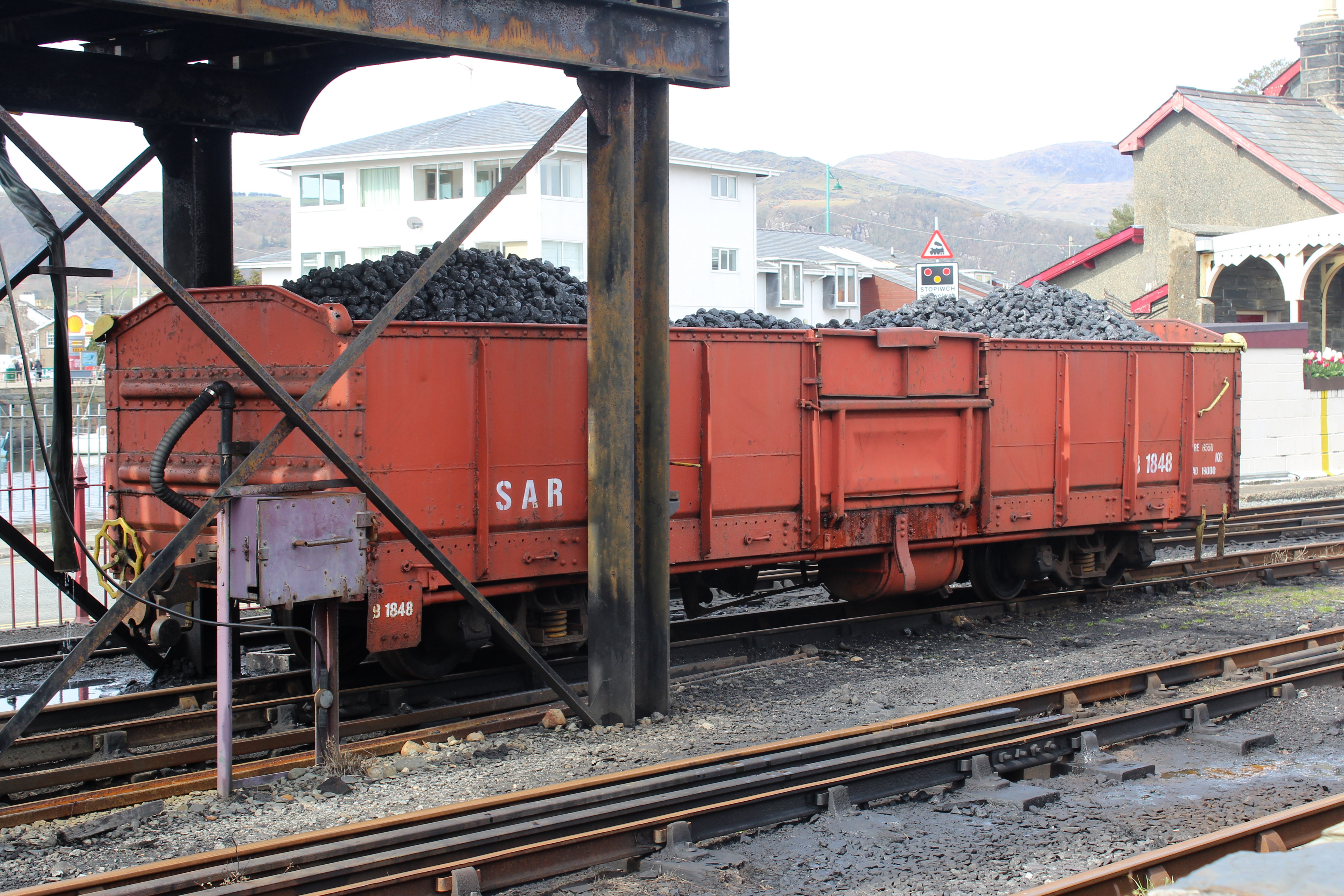 A "B Wagon" type coal truck of the Ffestiniog Railway in South African Railways livery at Porthmadog. This is one of fourteen 6.5 tonne coal trucks operating on the Ffestiniog Railway that formerly operated on South Africa's narrow gauge (610 mm) network.[1]